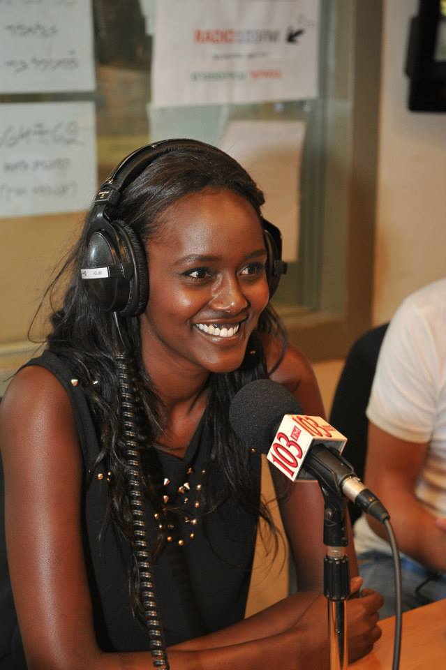 Tahounia Rubel at 103FM station studio.